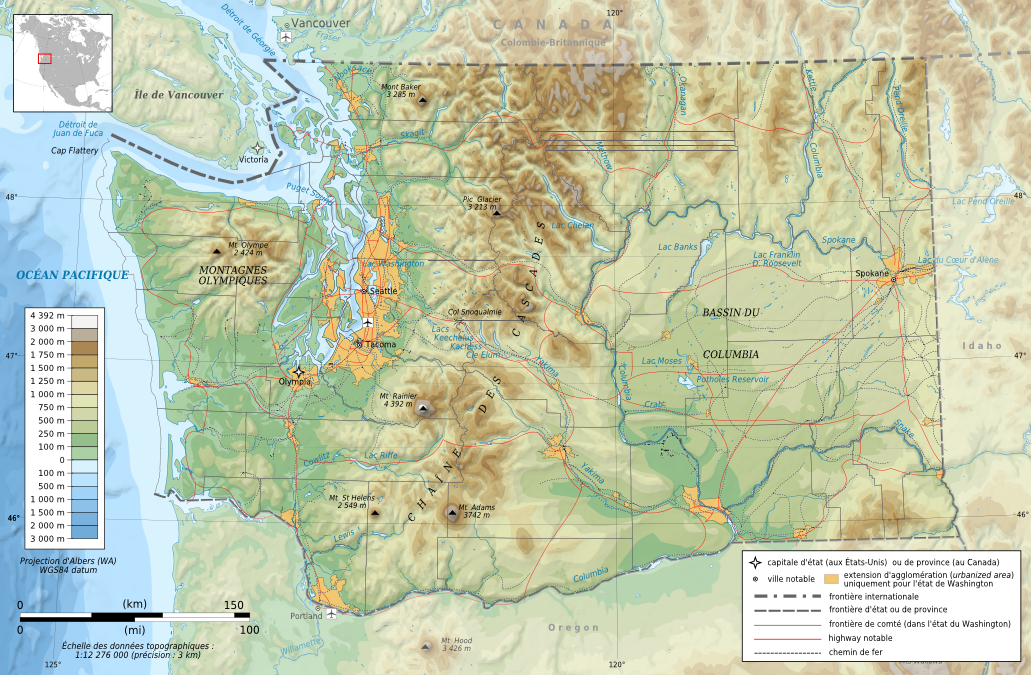 Topographic and administrative map in French of Washington (state)